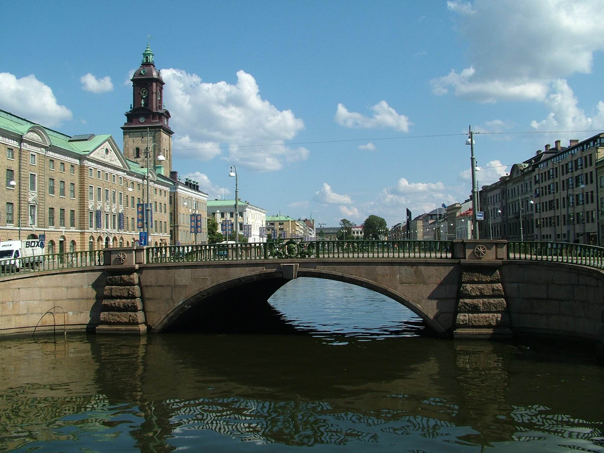 View of downtown Gothneburg